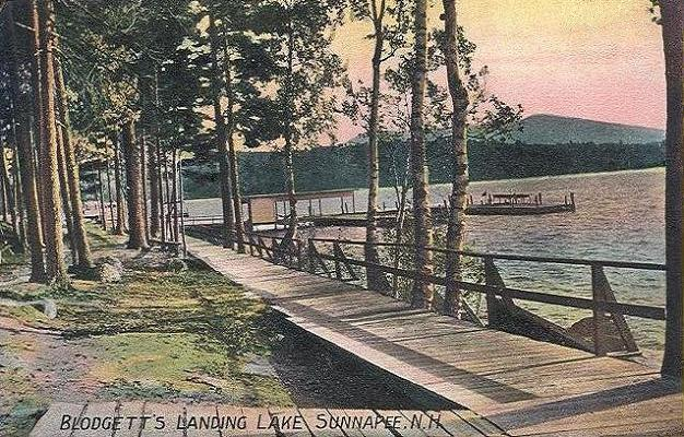 Blodgett's Landing, Lake Sunapee, Newbury, NH; from a 1908 postcard.